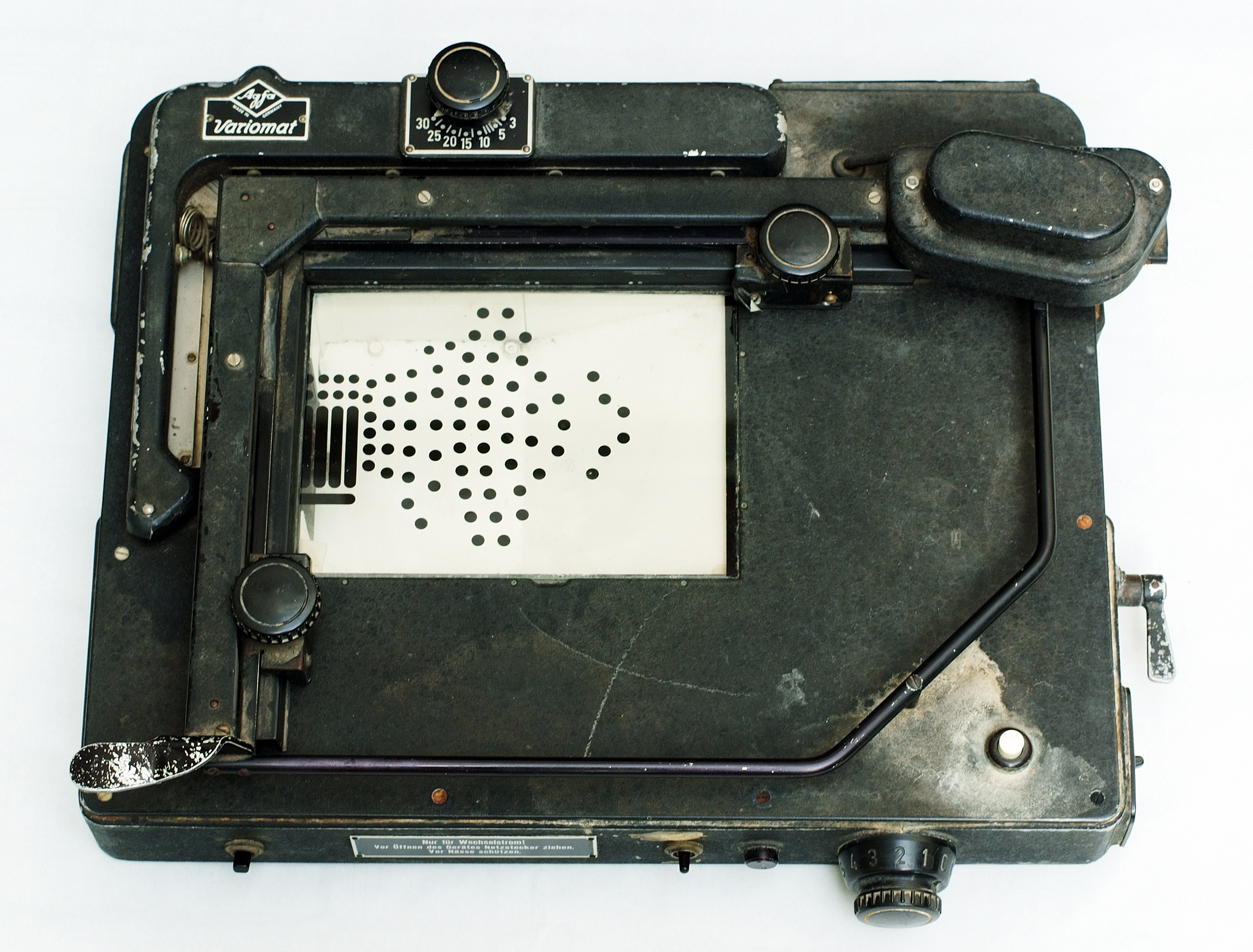 Agfa Variomat: Automatical machine for the enlarging fotographical papers in color and black and white.